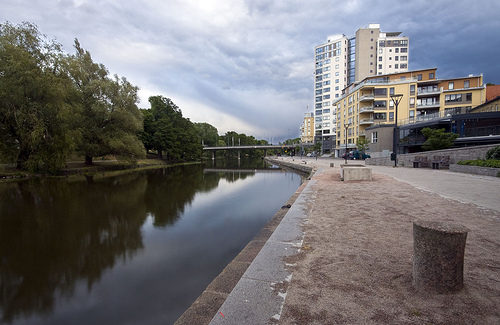 Stångån and Strandgatan in Linköping, Sweden